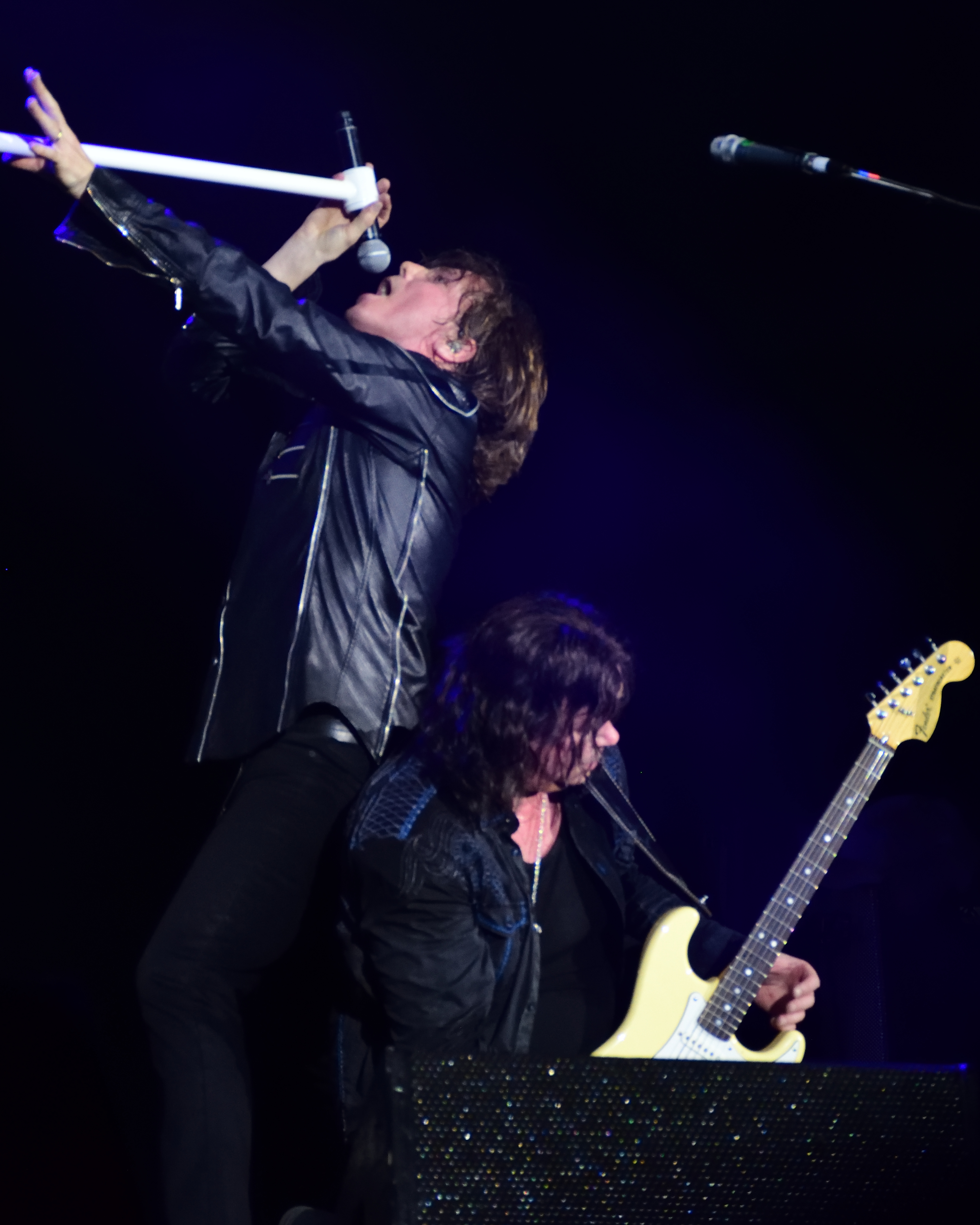 Joey Tempest & John Norum